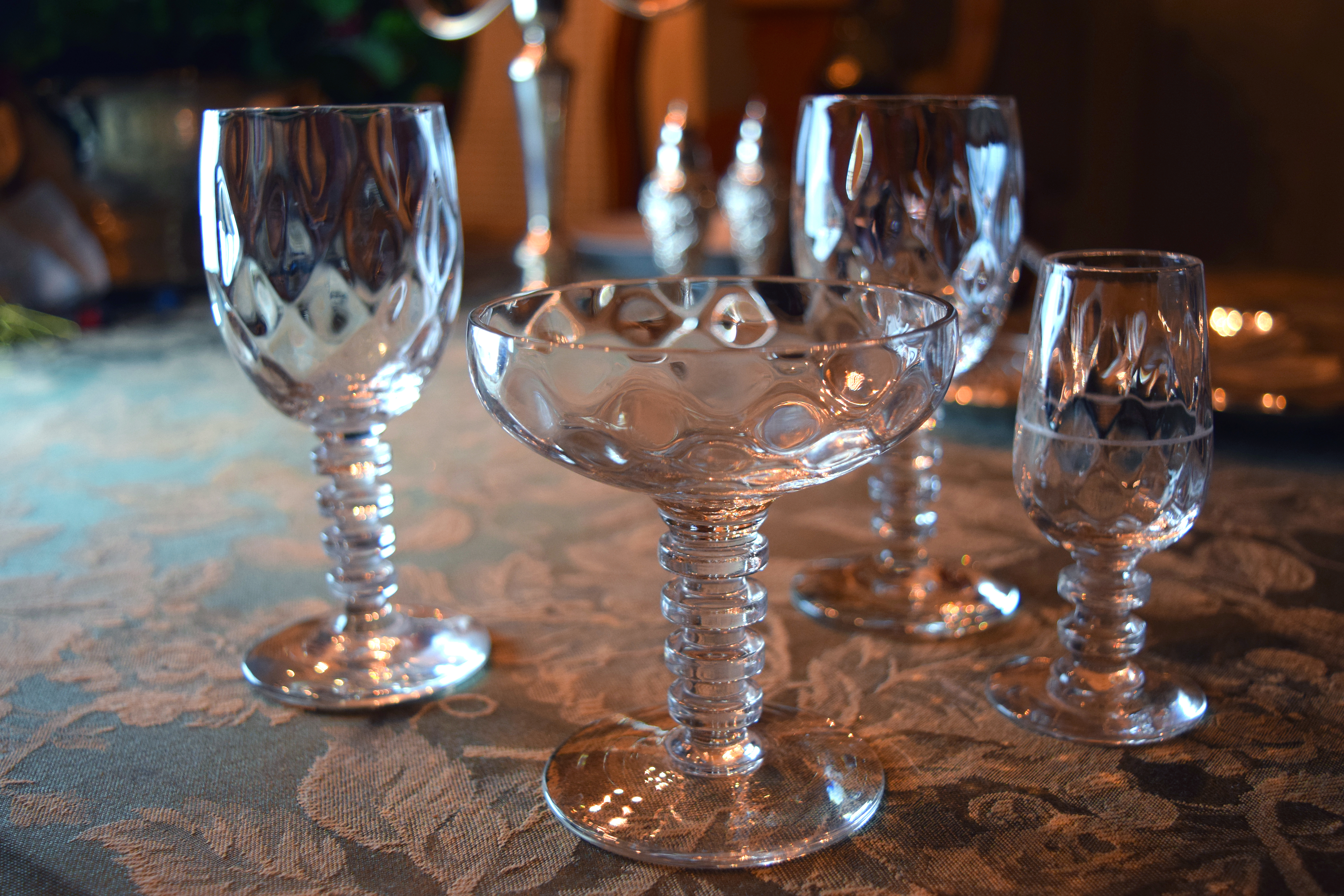 Bryce Brothers diamond optic, multi knob crystal stemware collection from the original Sacramento Zombie Hut. From the private collection of descendants of Beatrice Hill, a former owner and Terry Simonsen, a former chef